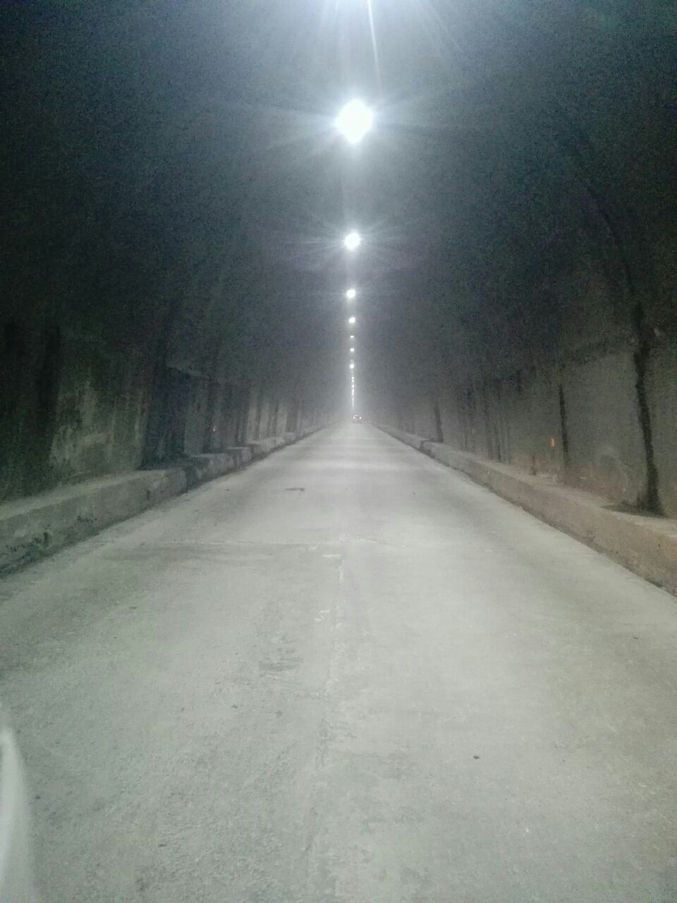 Anzob Tunnel Lighting